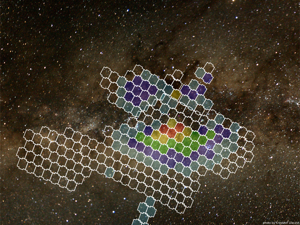 OGLE-IV Galactic Bulge fields. Observations started in 2010, the colors indicate field cadence. Field numbers and coordinates can be found on the OGLE web page .pl together with other, more detailed maps. OGLE-IV observe Galactic Bulge (BLG), LMC, SMC, Galactic Disk (GD and DG), Magellanic Bridge (MBR) and Kuiper Belt Objects (KBO).